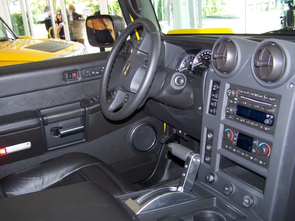 Interior of a Hummer H2 SUT